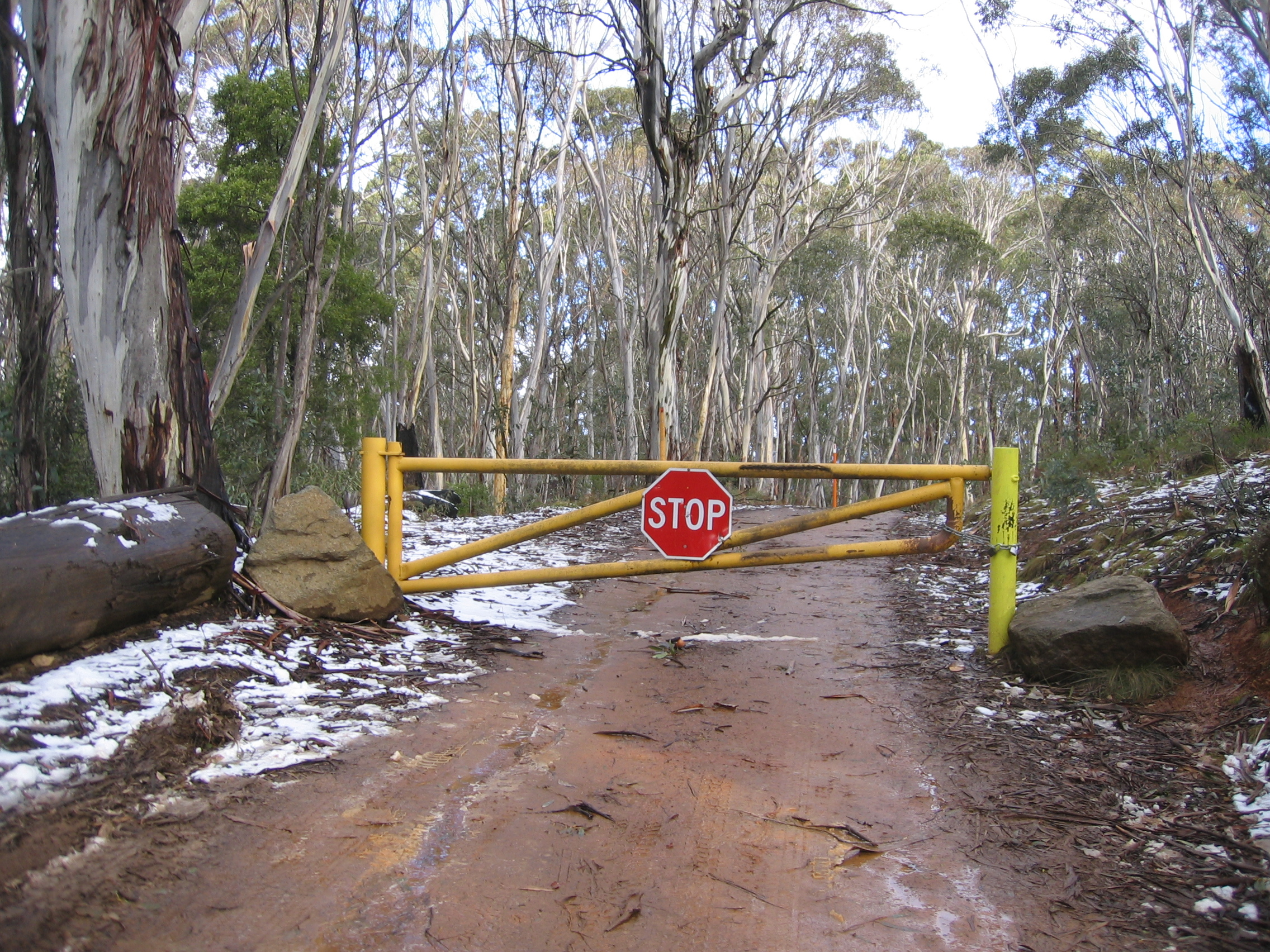 The Road to Mount Franklin, ACT, Australia, is often closed in winter. Cross country skiers use the road for access.